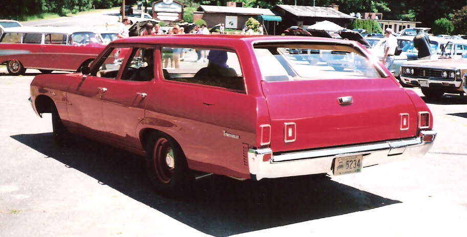 1970 Chevrolet Townsman station wagon I photographed in Sturbridge, Massachusetts on June 21, 2008.